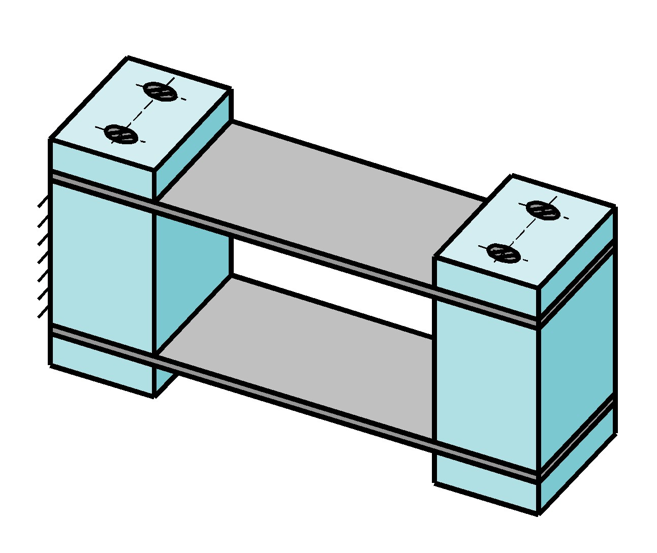 parallel linear spring guide